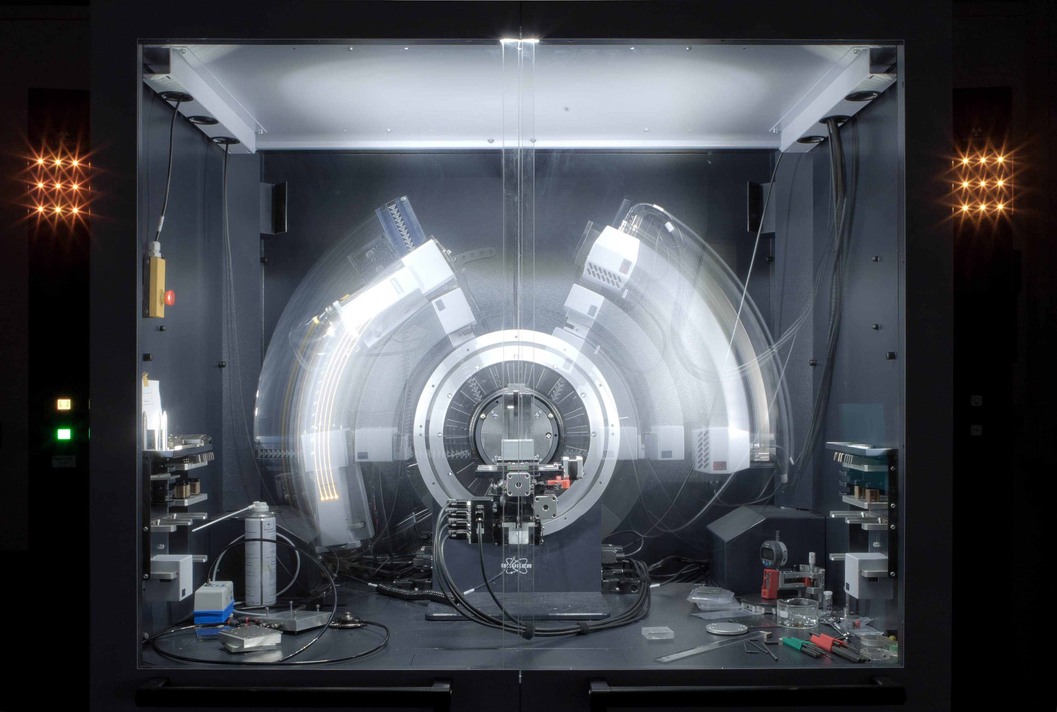 X-Ray crystallography is a tool used for identifying the atomic and molecular structure of a crystal. The movement of the machine during 80 second scan can give different view on how relatively slow scientific measurements can look frozen in time by shutter speed of 90 seconds.